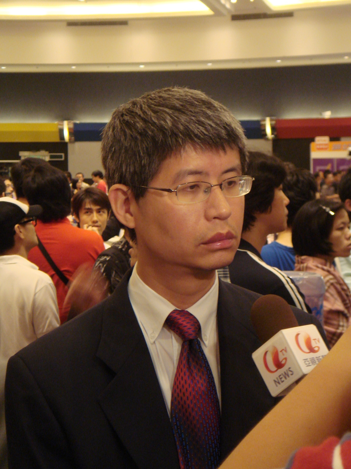 Hong Kong Political Commentator Ma Ngok